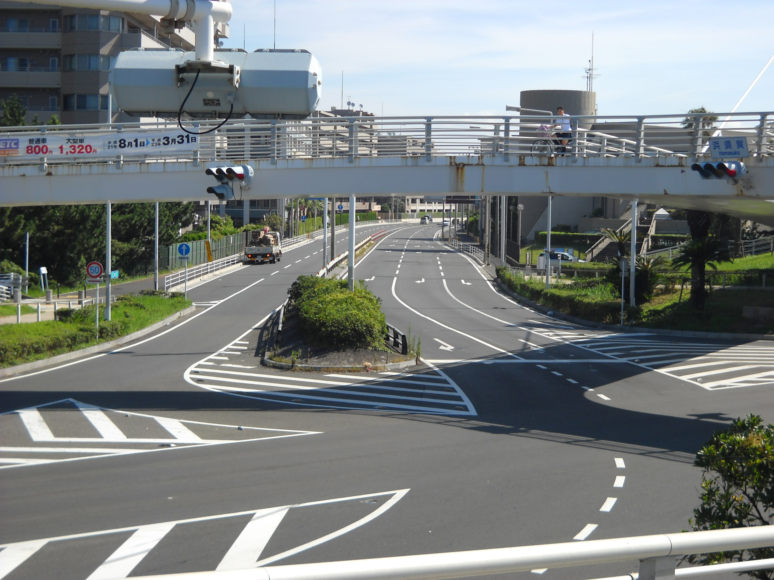 Hamasuka crossing(Route 134 & Kanagawa prefectural road route 30), Chigasaki city, Kanagawa pref., Japan